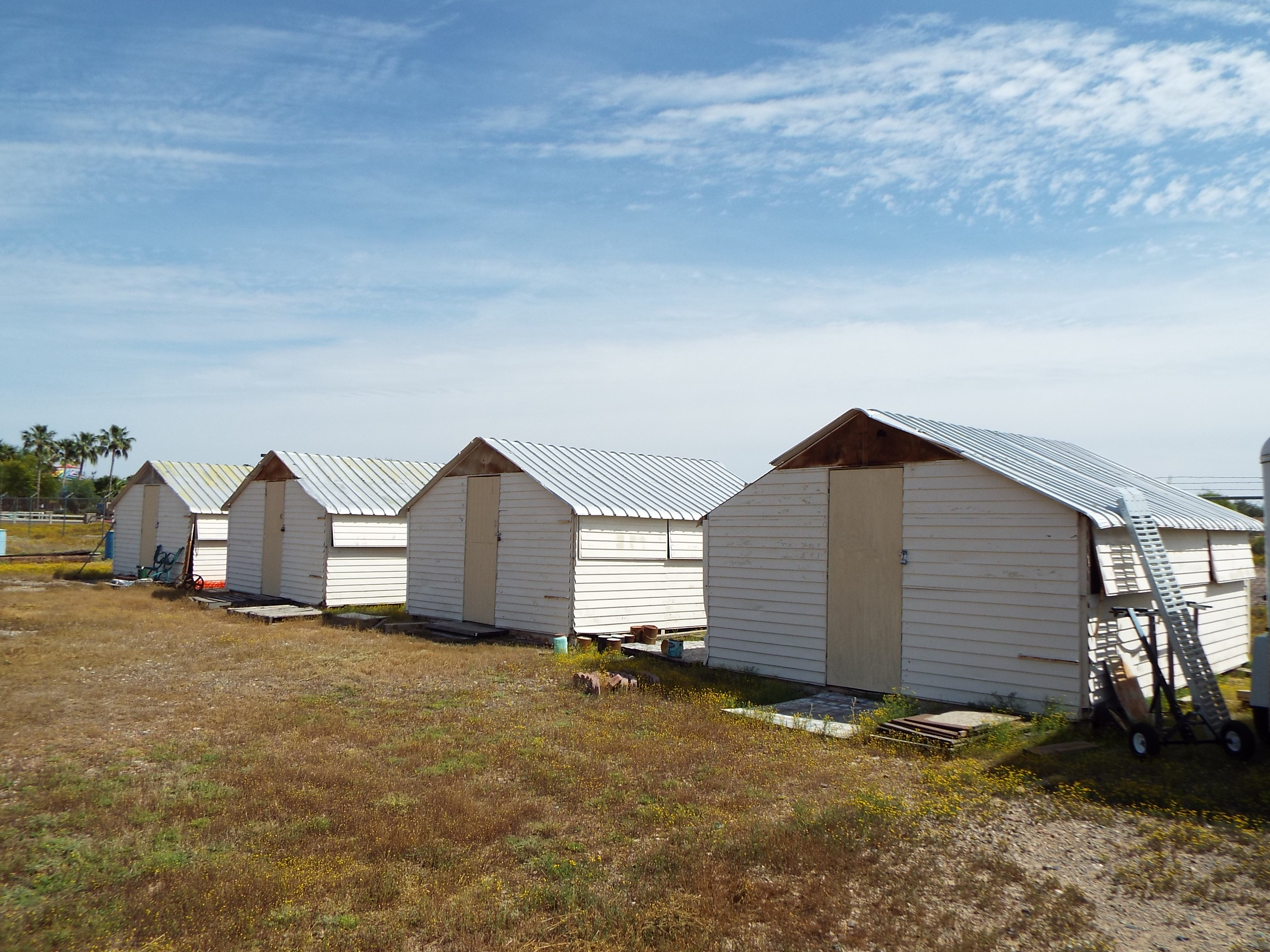 Japanese Internment Camp houses from Leupp, Flagstaff. These houses were built in 1943 and are now located in the grounds of the Sahuaro Central Railroad Museum. The museum is located at 23280 N 43rd Ave, Glendale, AZ